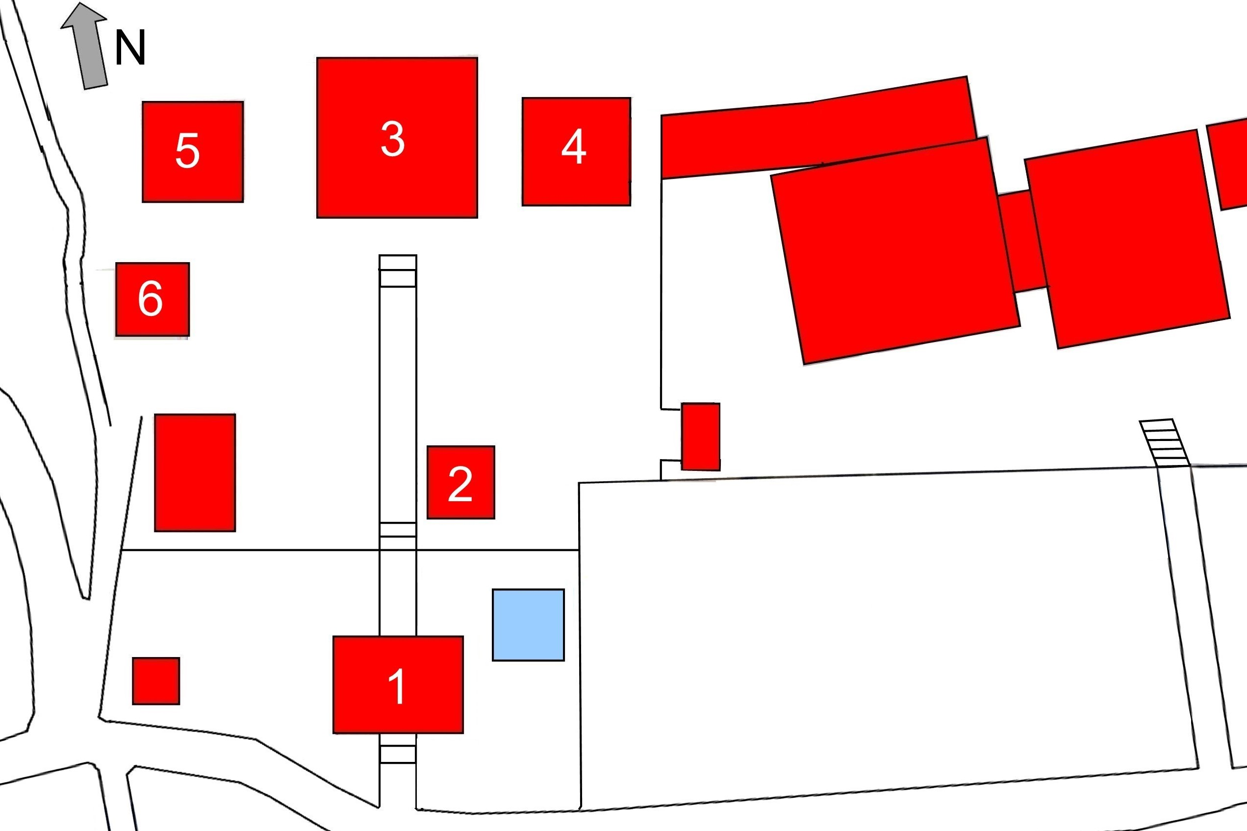 Layout of Jodo-ji at Matsuyama, Japan